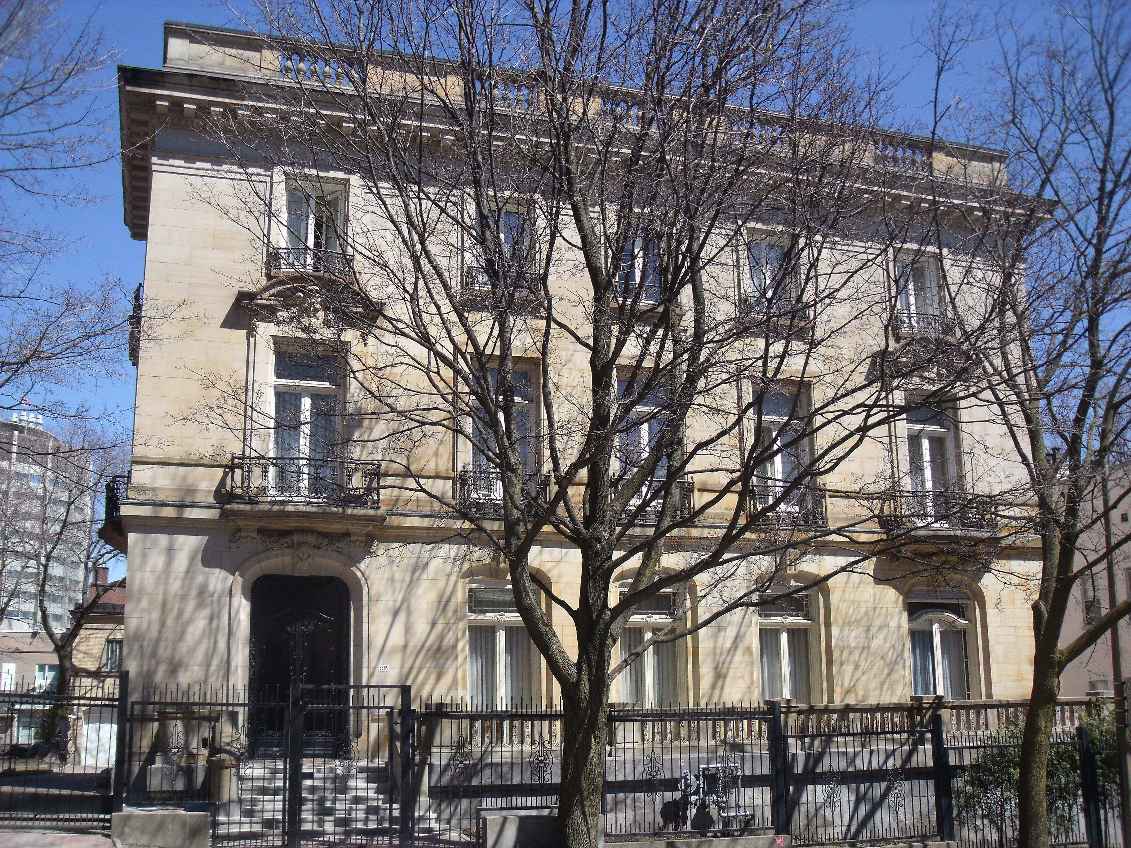 Rodolphe Forget House, 3685 Du Musée Street, Montreal, Quebec, Canada houses the Russian Consulate in Montreal.